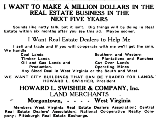 Howard Llewellyn Swisher (September 21, 1870 – August 27, 1945) was an American businessperson, real estate developer, orchardist, and historian in the U.S. state of West Virginia. Advertisement for Howard L. Swisher and Company, Inc. Land Merchants published in the following source: J.M. Jackson Directory and Publishing Company (1918) Jackson's Real Estate Directory, J.M. Jackson Directory and Publishing Company